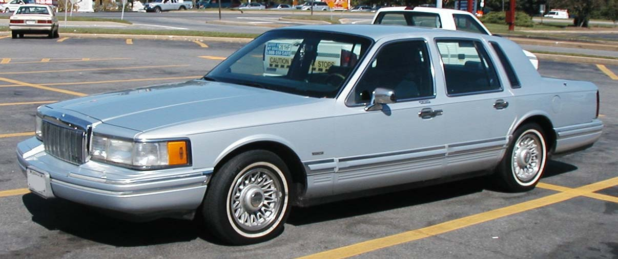 1990-1994 Lincoln Town Car photographed in USA.